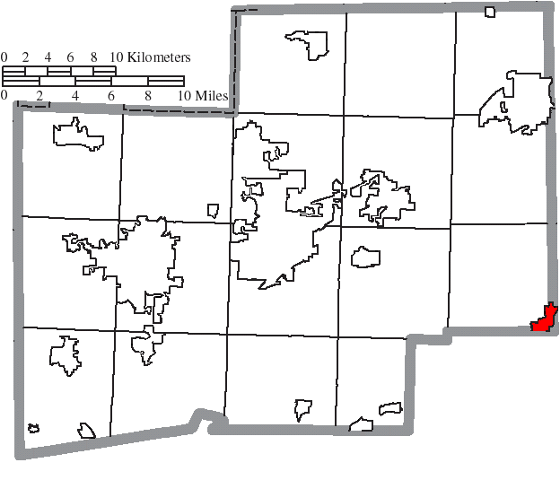 Map of the municipal and township boundaries of Stark County, Ohio, United States, as of the 2000 census, with the location of the village of Minerva highlighted. Township borders are shown only in unincorporated areas in order to differentiate incorporated and unincorporated areas more clearly.